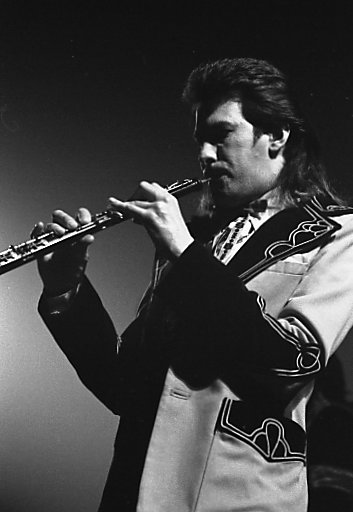 Massey Hall, Toronto,1974